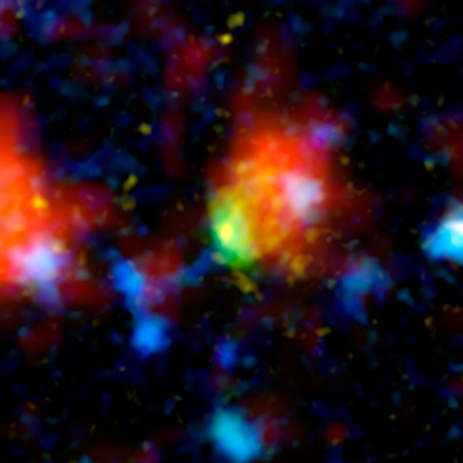 Picture of the super starbrust galaxy. The green and red splotch in this image is the most active star-making galaxy in the very distant universe. Nicknamed "Baby Boom," the galaxy is churning out an average of up to 4,000 stars per year, more than 100 times the number produced in our own Milky Way galaxy. It was spotted 12.3 billion light-years away by a suite of telescopes, including NASA's Spitzer Space Telescope.